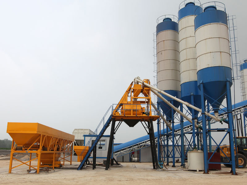 Different with the belt conveyor concrete plant, hopper lift concrete plant transport aggregate to the mixer by a hopper. Therefore, hopper lift concrete plant's production is usually smaller than belt conveyor concrete plant's.